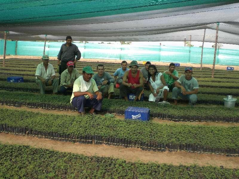 Dr. Kochurani Dombro at Planeta Verde Reforestación S.A.'s tree nursery in Vichada, Columbia with workers